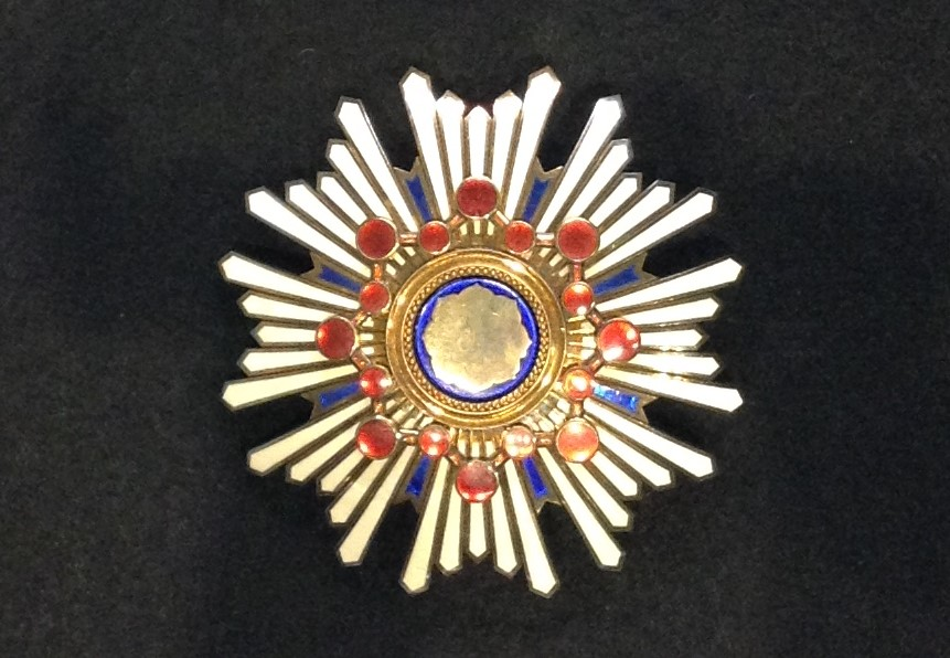 Grand Cordon of the Order of the Sacred Treasure